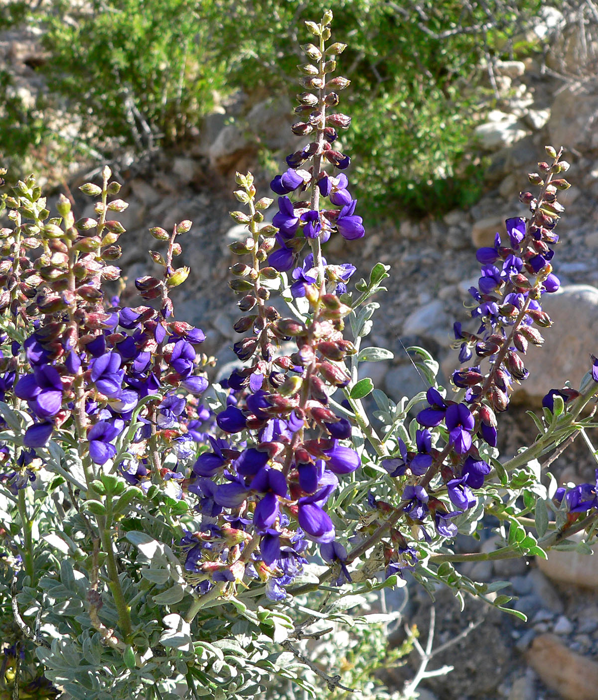 Photo of Psorothamnus fremontii (indigo bush) in Red Rock Canyon, Nevada